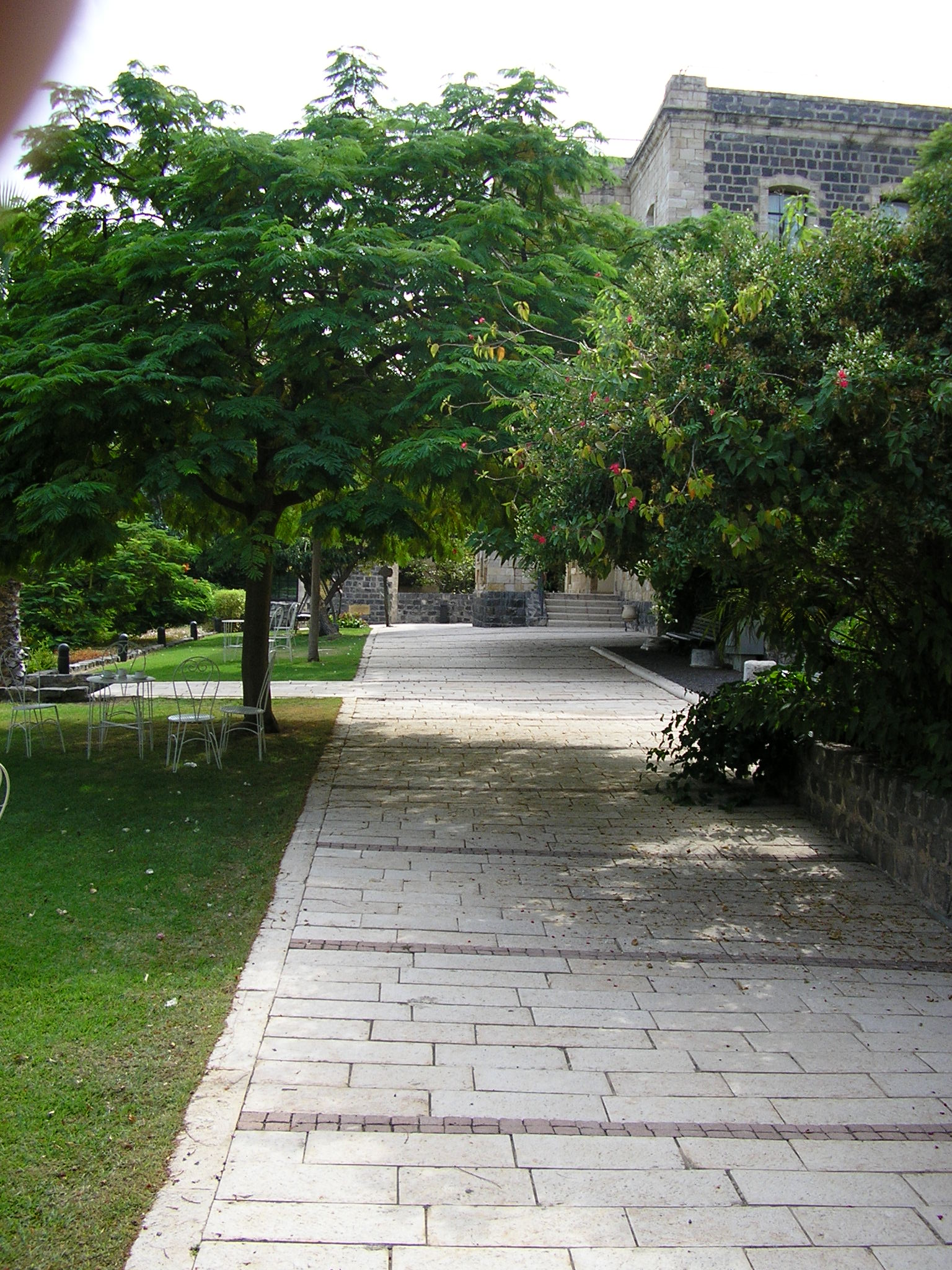 The Scots Hotel (34).JPG